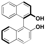 The structure of (R)-BINOL